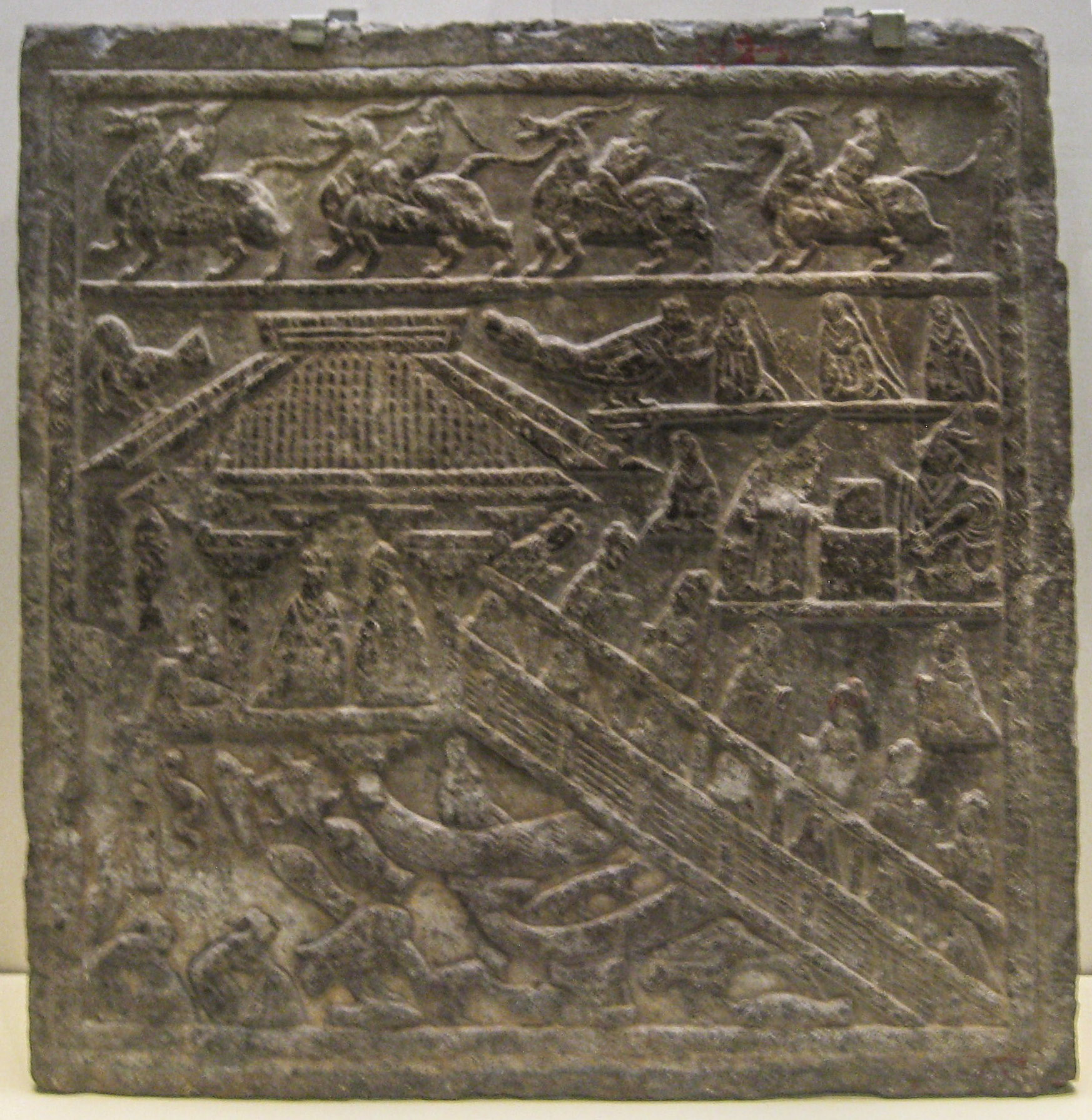 Stone carving from the Eastern Han Dynasty. Unearthed at Liangcheng, Weishan, Shandong Province. The main part of the carving is taken up by a waterside pavilion overlooking a lake that is full of fish, turtles and waterfowl. In the upper right corner depicts the divine healer Bian Que 扁鵲 (depicted as a bird with a human head) treating three sick people using acupuncture, below which two people are playing the game of Liubo.